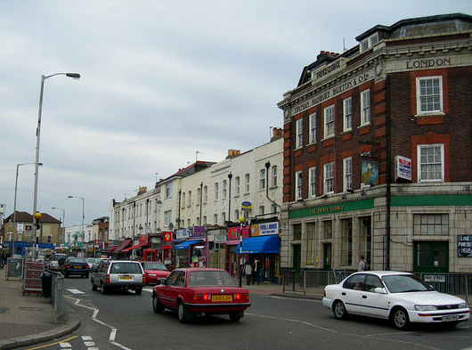 High Street, Thornton Heath At the corner of Nursery Road.